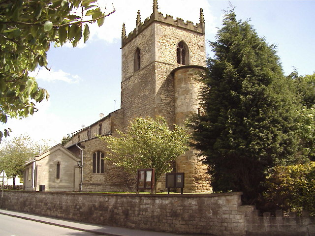 St Mary's parish church, Broughton, Lincolnshire, seen from the northwest